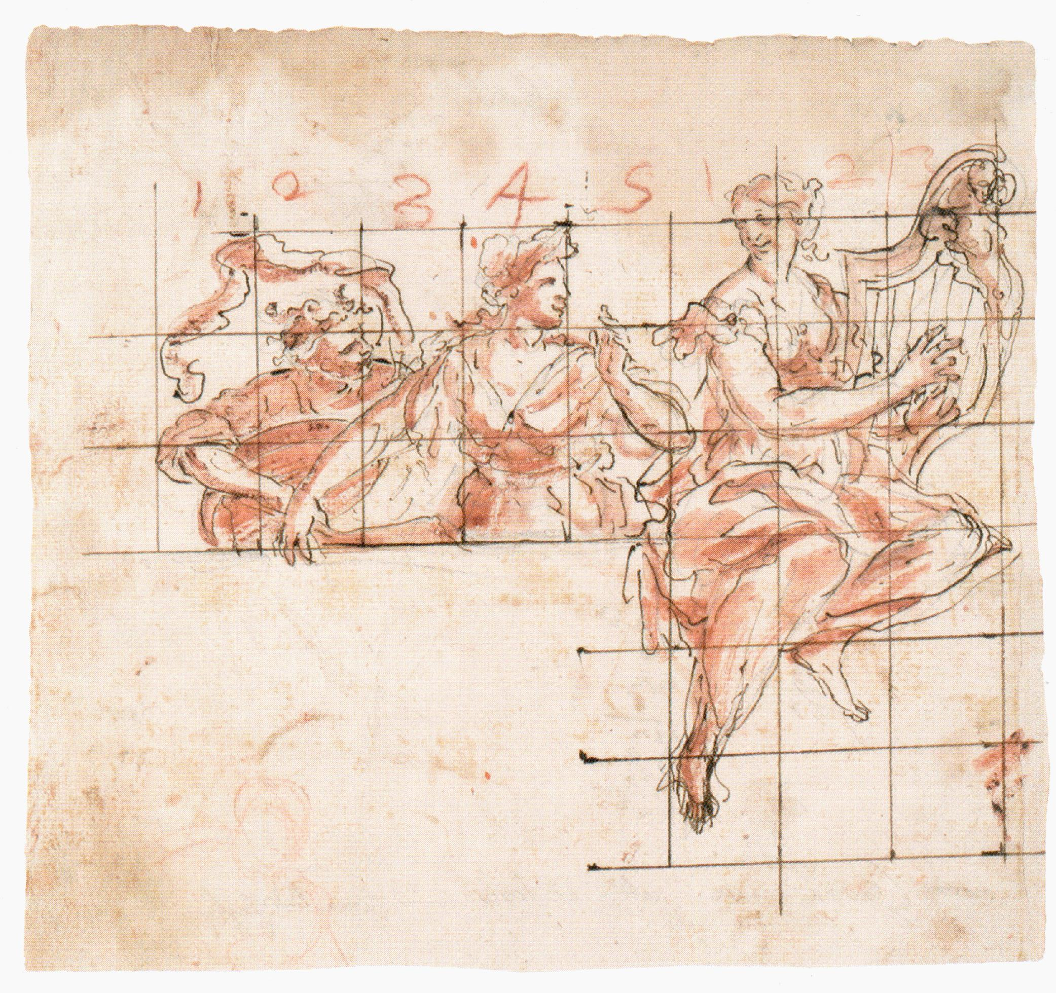 220*220 mm, Kabinet grafike HAZU - Croatian Academy of Sciences and Arts, Department of Prints and Drawings